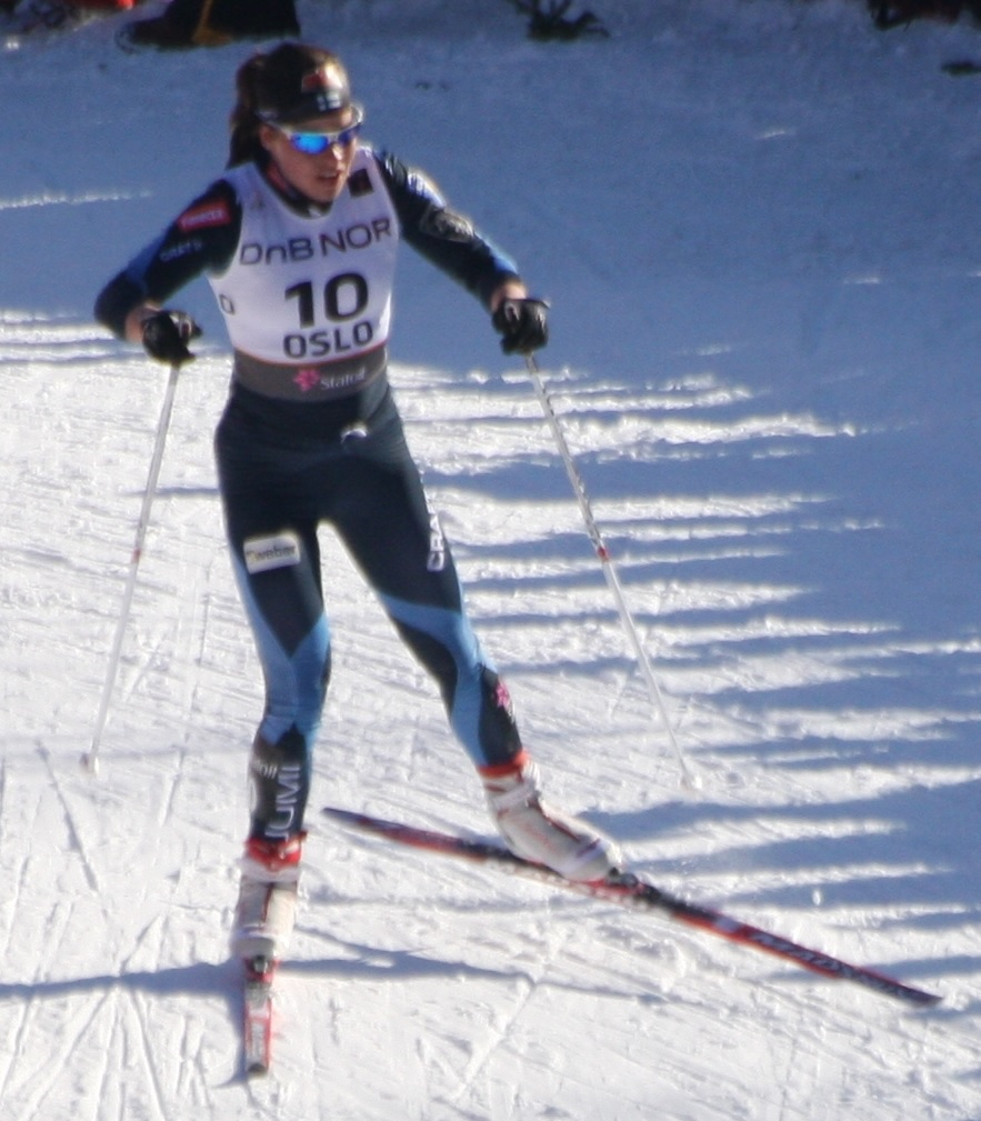 Krista Lahteenmaki, Finland, at 17 km in the women's 30 km, FIS Nordic Ski World Championship, Oslo 2011.